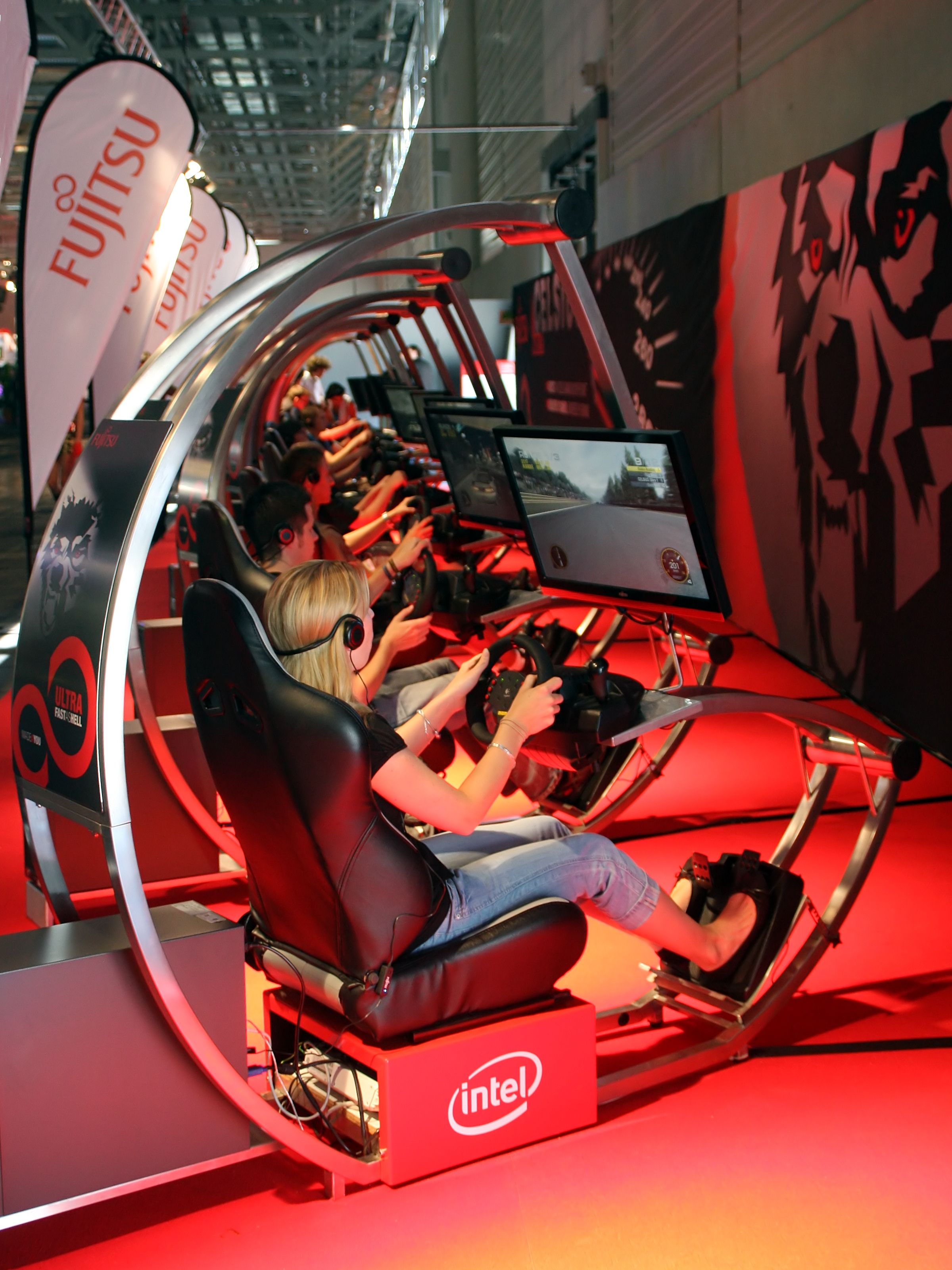 Booth of Fujitsu on the Gamescom 2009, Cologne